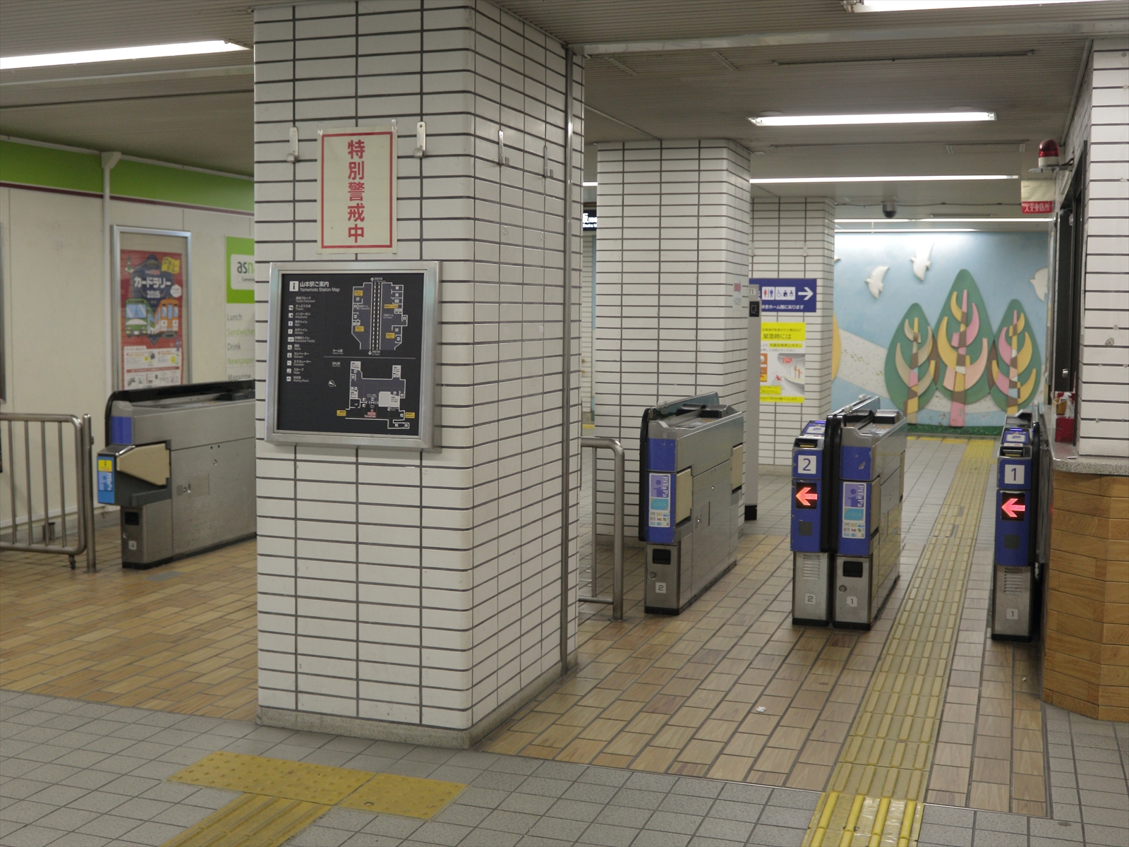 Ticket Barrier from Yamamoto Station (Hyōgo).